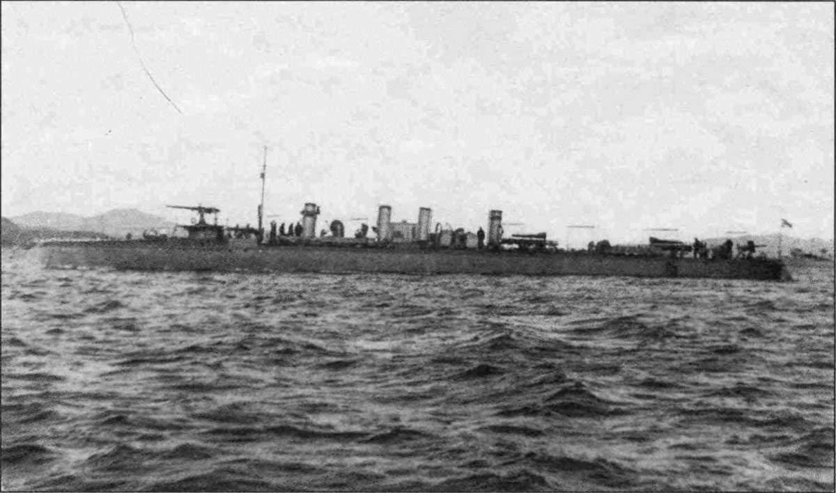 The Imperial Russian torpedo boat Smelyi in Port-Arthur.